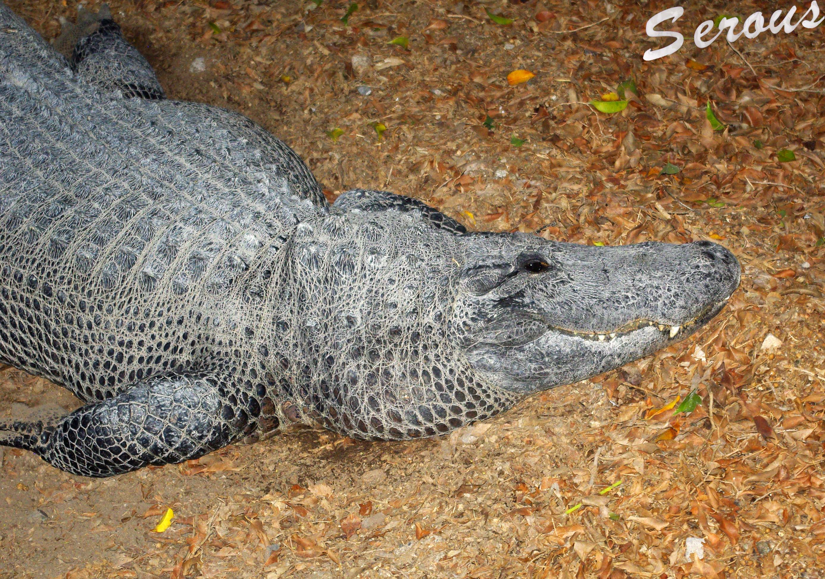 Crocodile in Hamat-Gader